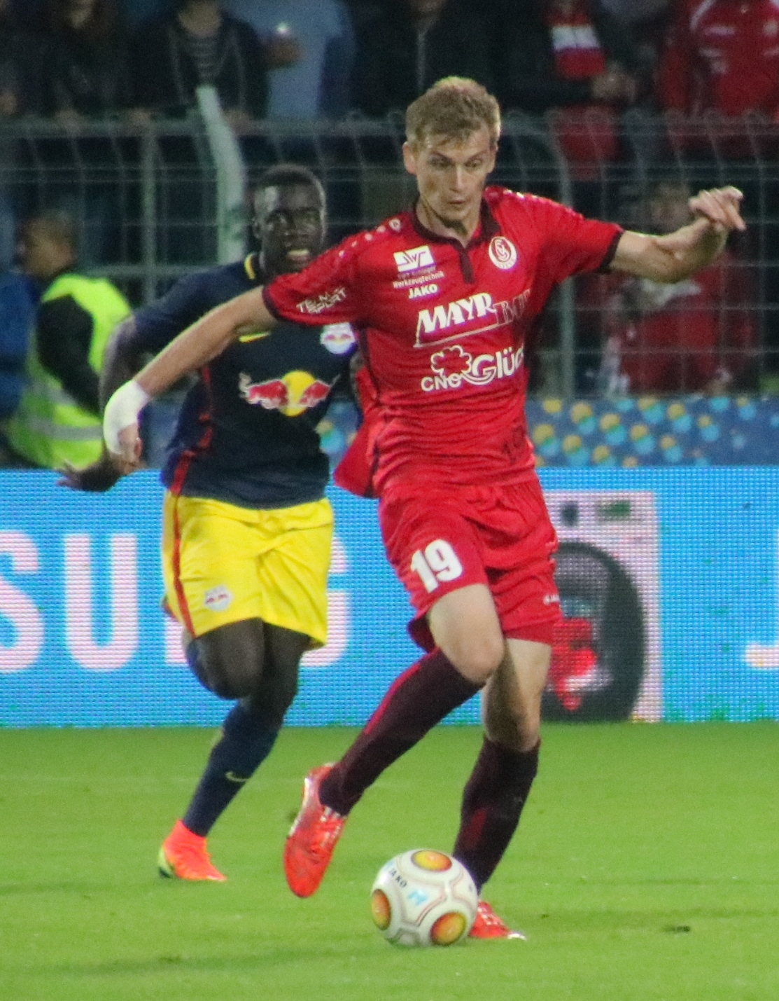 Austrian Cup 1st round